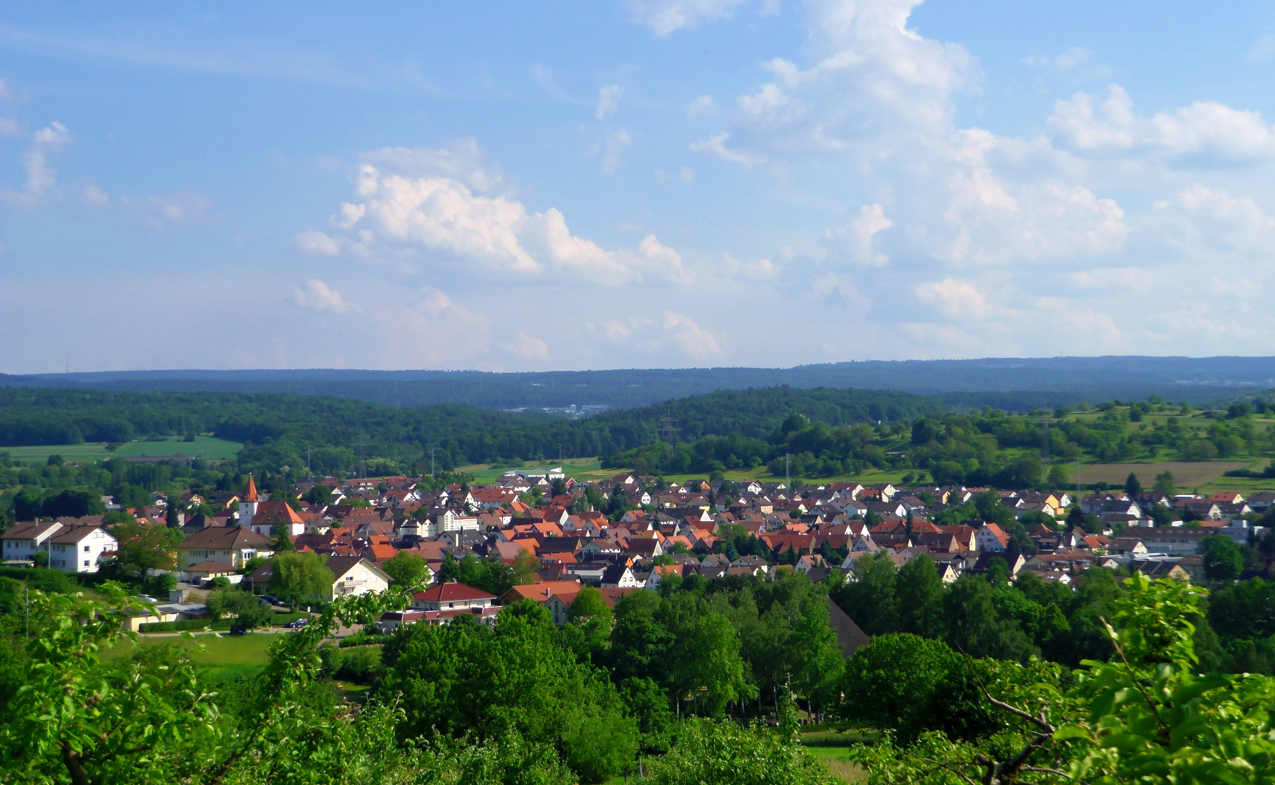 View over Ellmendingen (Keltern)